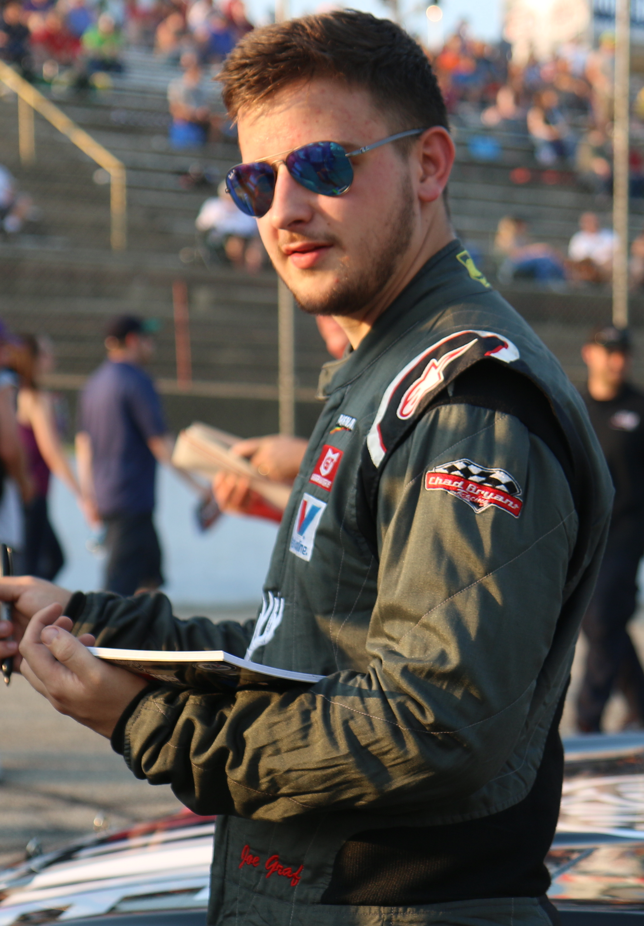 ARCA driver Joe Graf Jr signing autographs at Madison International Speedway.